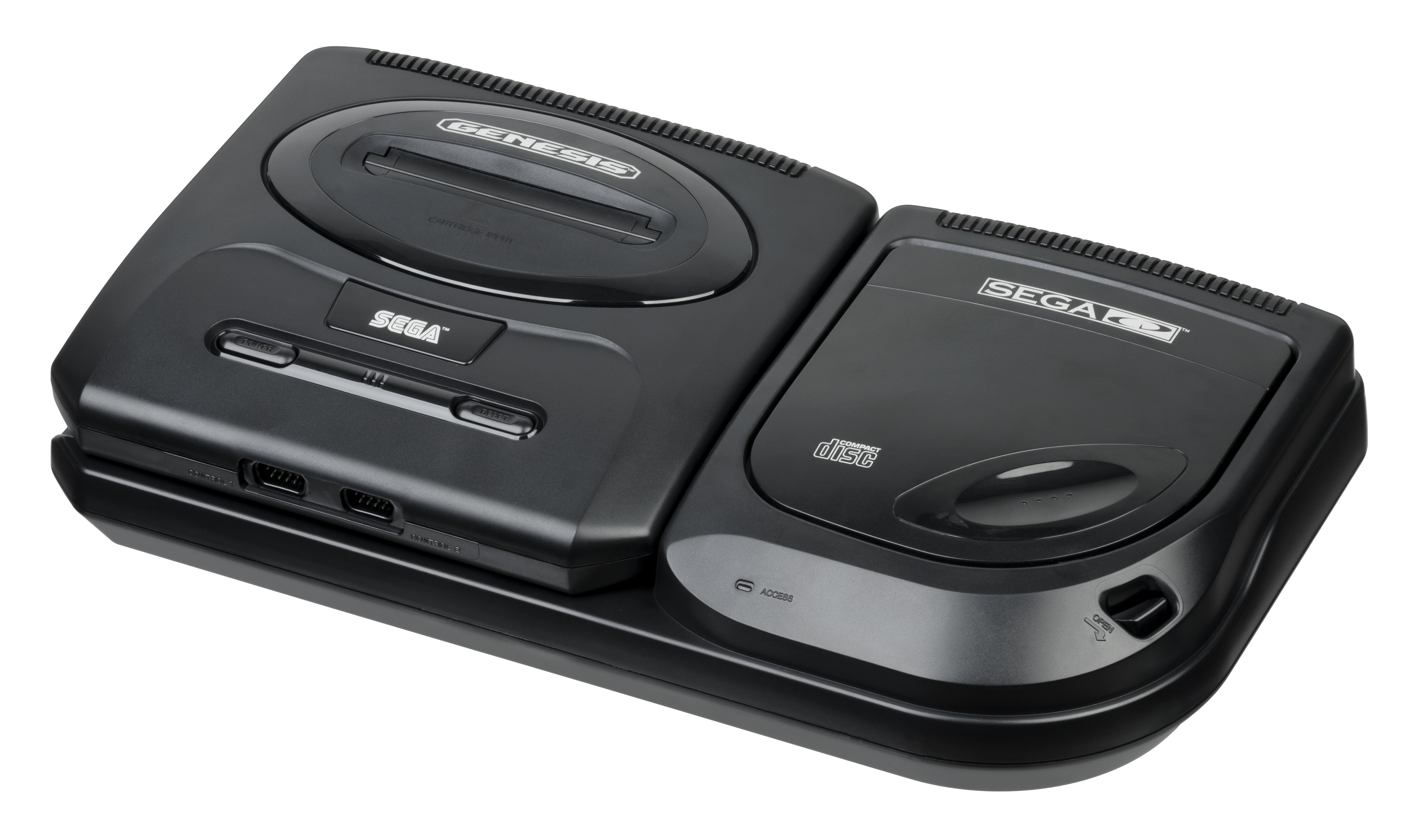 A model 2 Sega CD. This is a CD-ROM drive add-on that was released by Sega for its Genesis/Mega Drive video game console in 1991.